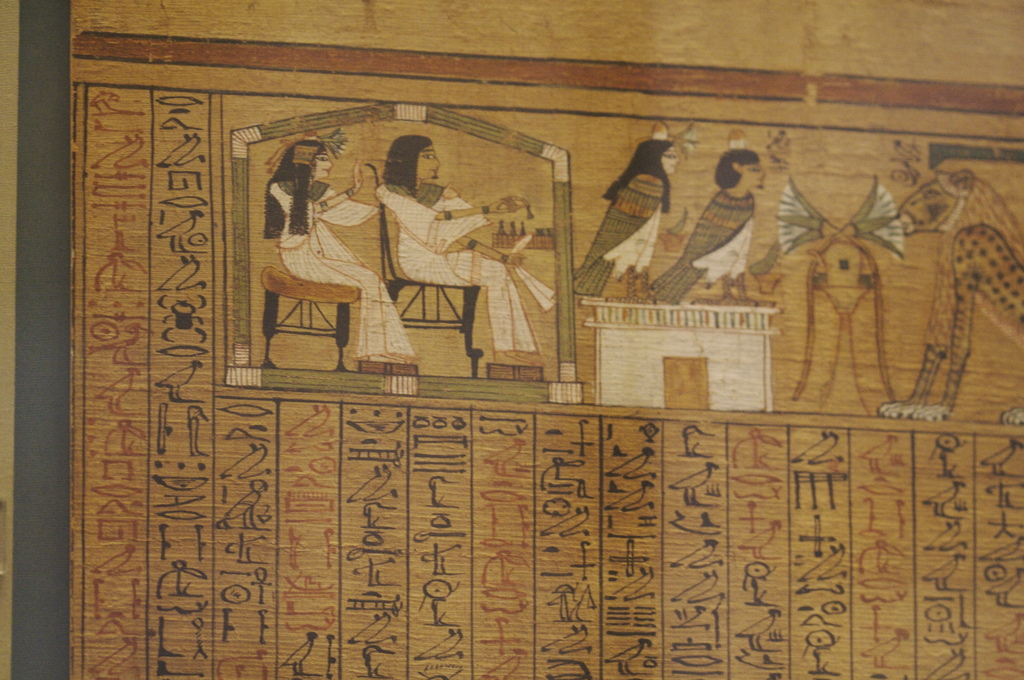 A hoard of photos from a day trip to London. We started in Greenwich at the Royal Observatory, and then spent most of the evening at the British Museum. These are uncleaned and unedited; all I've done is shrunk to make it faster to upload them. I'll post some of my faves to my "real" Flickr account as time and mood permits. A hoard of photos from a day trip to London. We started in Greenwich at the Royal Observatory, and then spent most of the evening at the British Museum. These are uncleaned and unedited; all I've done is shrunk to make it faster to upload them. I'll post some of my faves to my "real" Flickr account as time and mood permits.